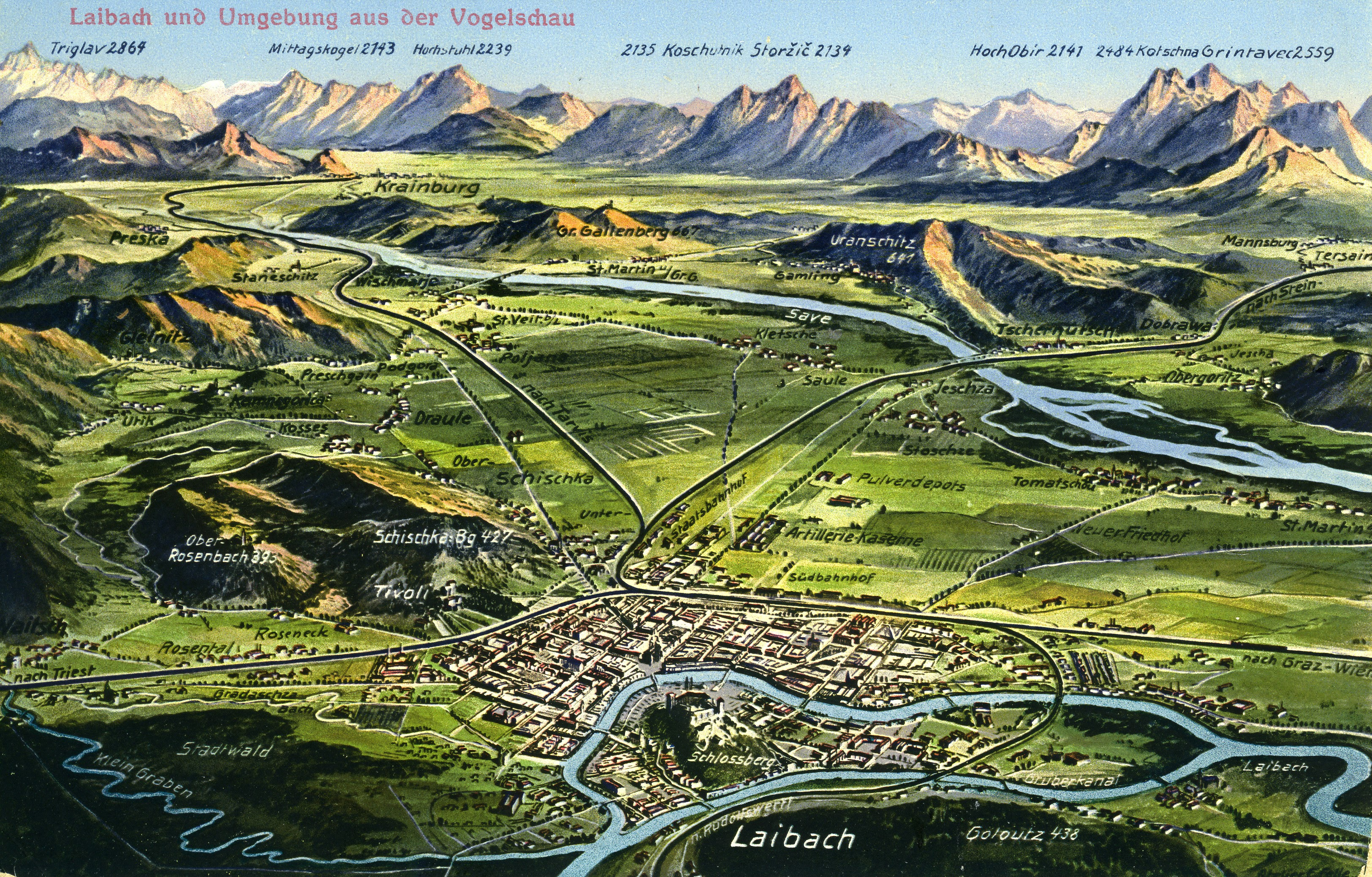 Postcard of Ljubljana map